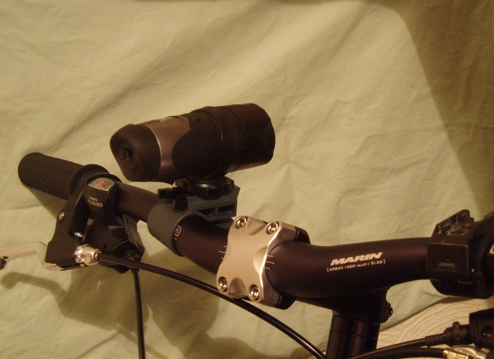 Oregon Scientific video camera (records 1 hour of 640x480 at 30fps to an 2GB SD card) mounted on handlebars of a bicycle